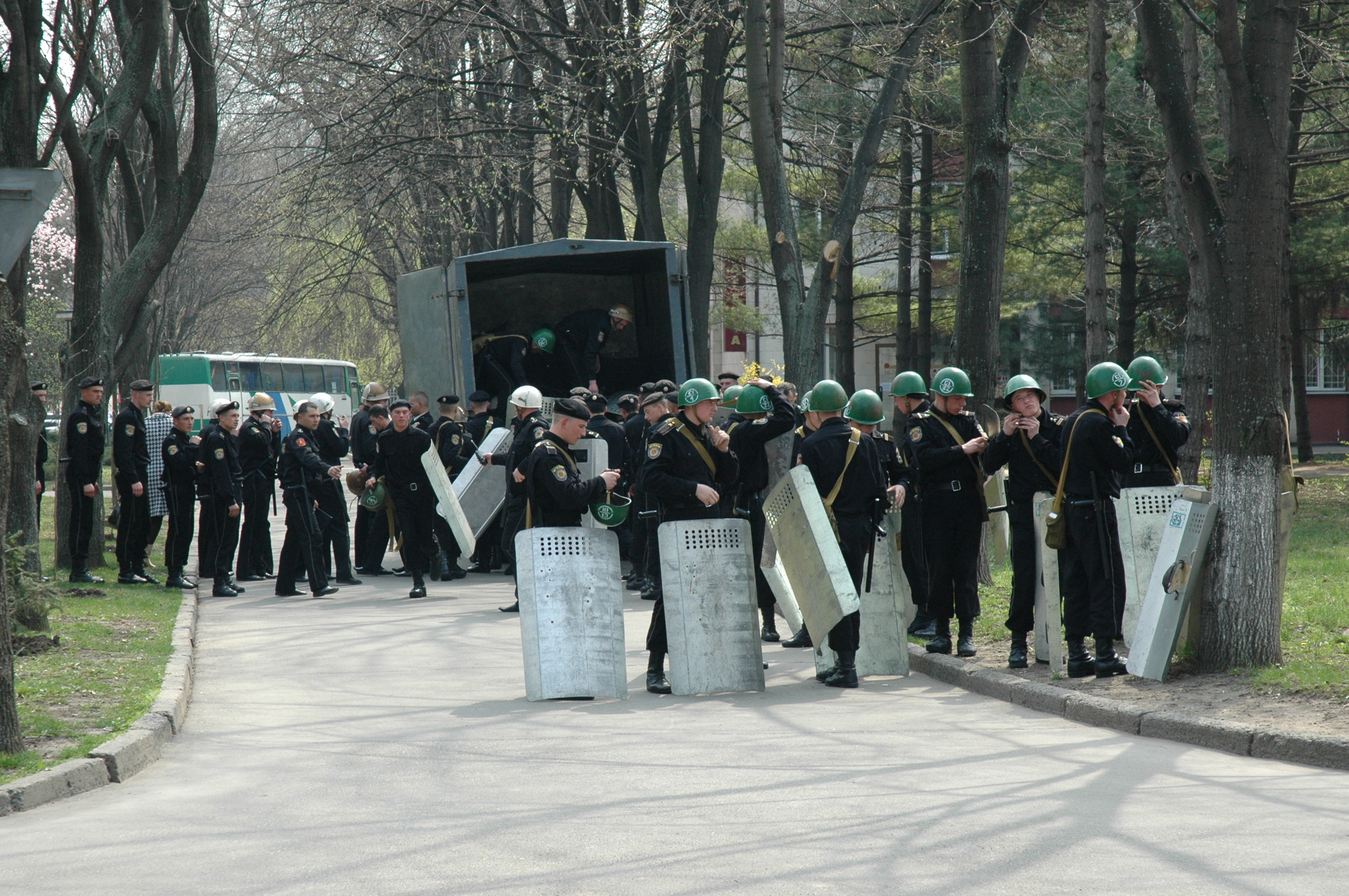 Protest riot in Chisinau after the 2009 parliamentary elections